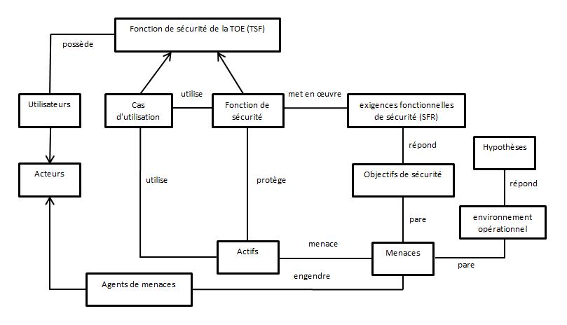 Meta Modèle Taguchi